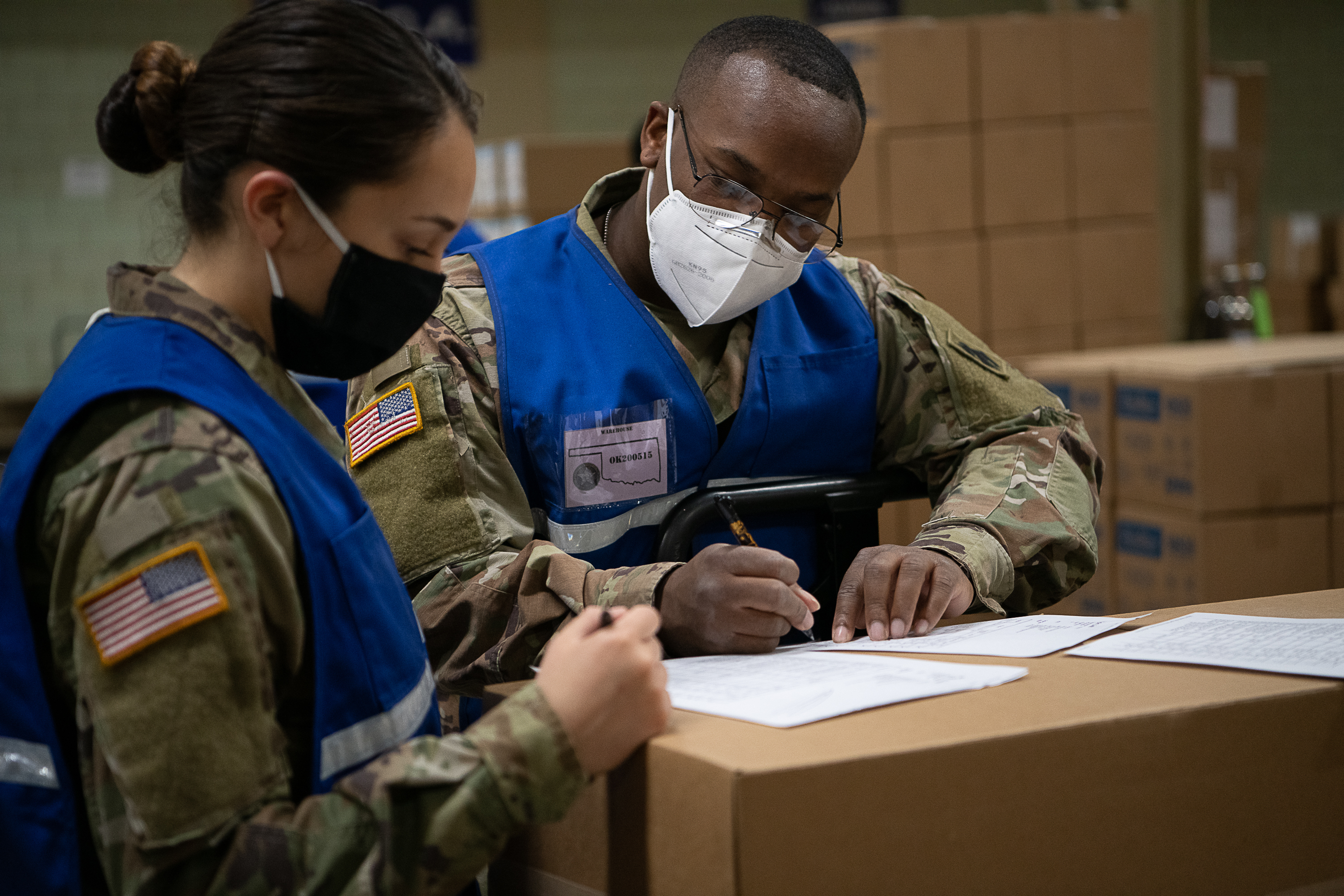 Oklahoma National Guardsmen from throughout the state double and triple-check medical supply orders for quality while assigned to the Oklahoma’s Strategic National Stockpile in Oklahoma City, April 20, 2020. The nearly 30 Guardsmen assigned to the site — partnered with state agency partners like the Oklahoma Department of Emergency Management, Oklahoma Department of Public Safety, Oklahoma Department of Transportation, Oklahoma Office of Homeland Security and the Oklahoma Department of Corrections — help fulfill, secure and transport the orders from facilities within the 11 identified COVID-19 regional health administration locations throughout Oklahoma as part of the state’s whole-of-government response to the pandemic. (Oklahoma Air National Guard photo by Tech. Sgt. Kasey Phipps)